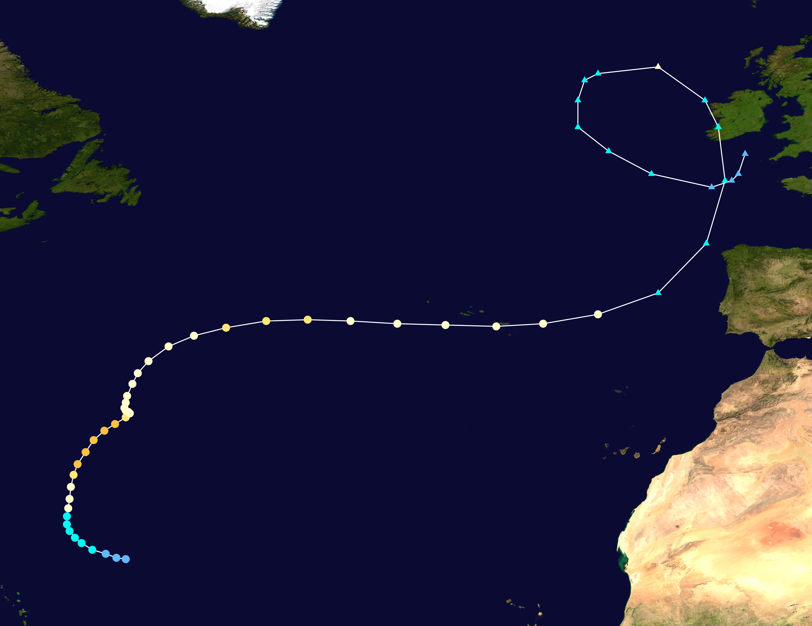 Track map of Hurricane Gordon of the 2006 Atlantic hurricane season. The points show the location of the storm at 6-hour intervals. The colour represents the storm's maximum sustained wind speeds as classified in the Saffir–Simpson scale (see below), and the shape of the data points represent the nature of the storm, according to the legend below. Saffir–Simpson scale Tropical depression≤38 mph≤62 km/h Category 3111–129 mph178–208 km/h Tropical storm39–73 mph63–118 km/h Category 4130–156 mph209–251 km/h Category 174–95 mph119–153 km/h Category 5≥157 mph≥252 km/h Category 296–110 mph154–177 km/h Unknown Storm type Tropical cyclone Subtropical cyclone Extratropical cyclone / Remnant low / Tropical disturbance / Monsoon depression